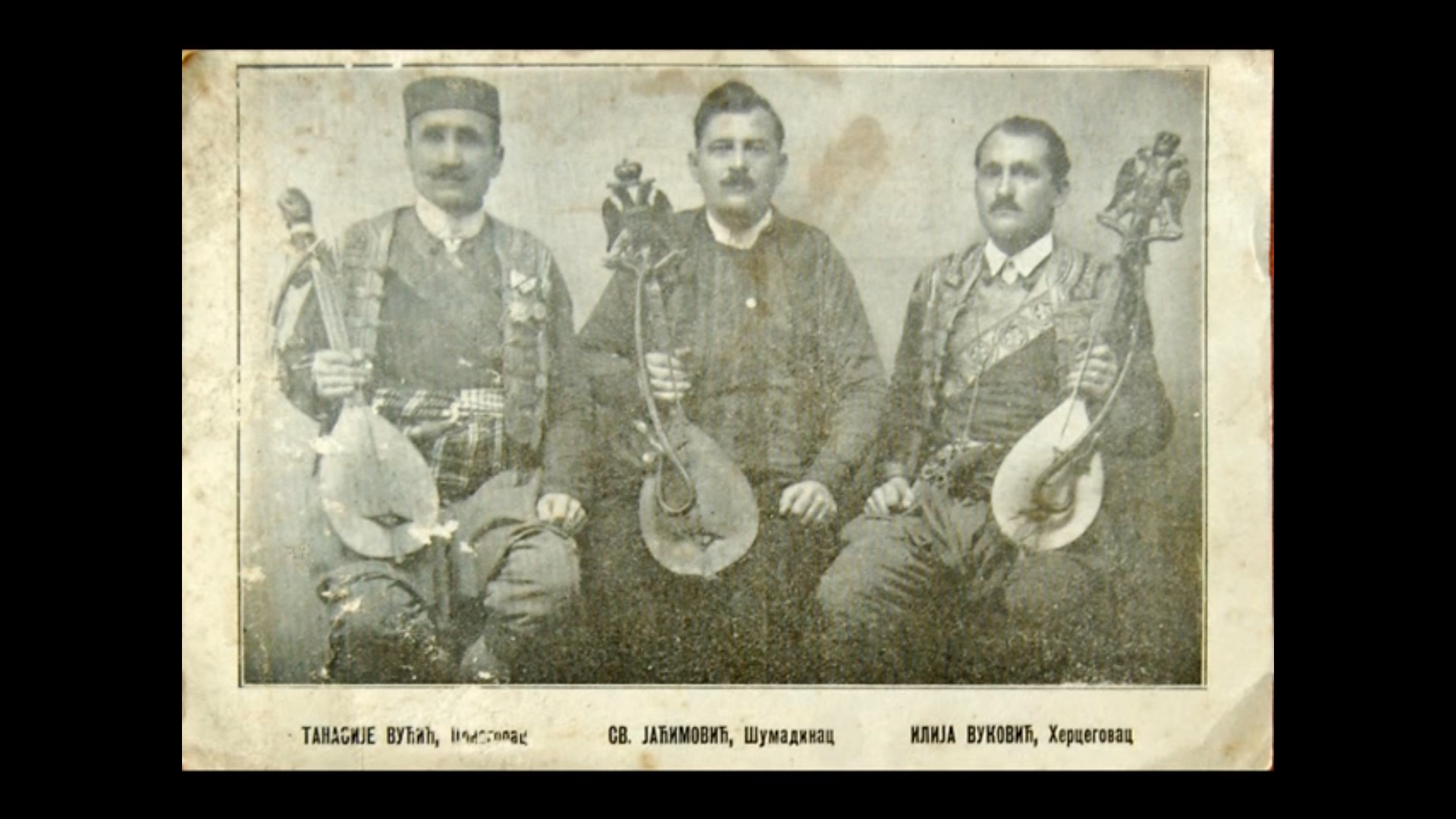 Guslar players 1927 Tanasije Vucic, Svetozar Jacimovic and Ilija Vukovic from one of the Gusle festivals in the kingdom of Yugoslavia. Tanasije Vucic was recorded on disk in Berlin by Gesemann